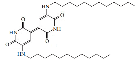 N5,N5′-Didodecylindigoidine